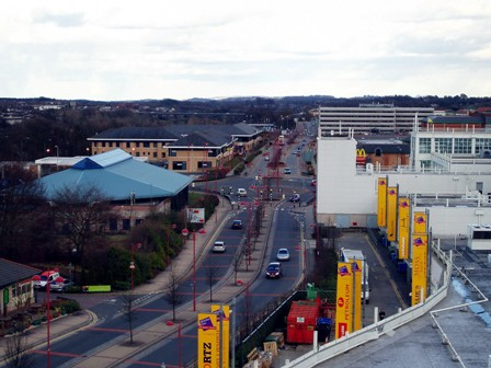 Boulevard at Livingston, Scotland, Source- Michael Westwater